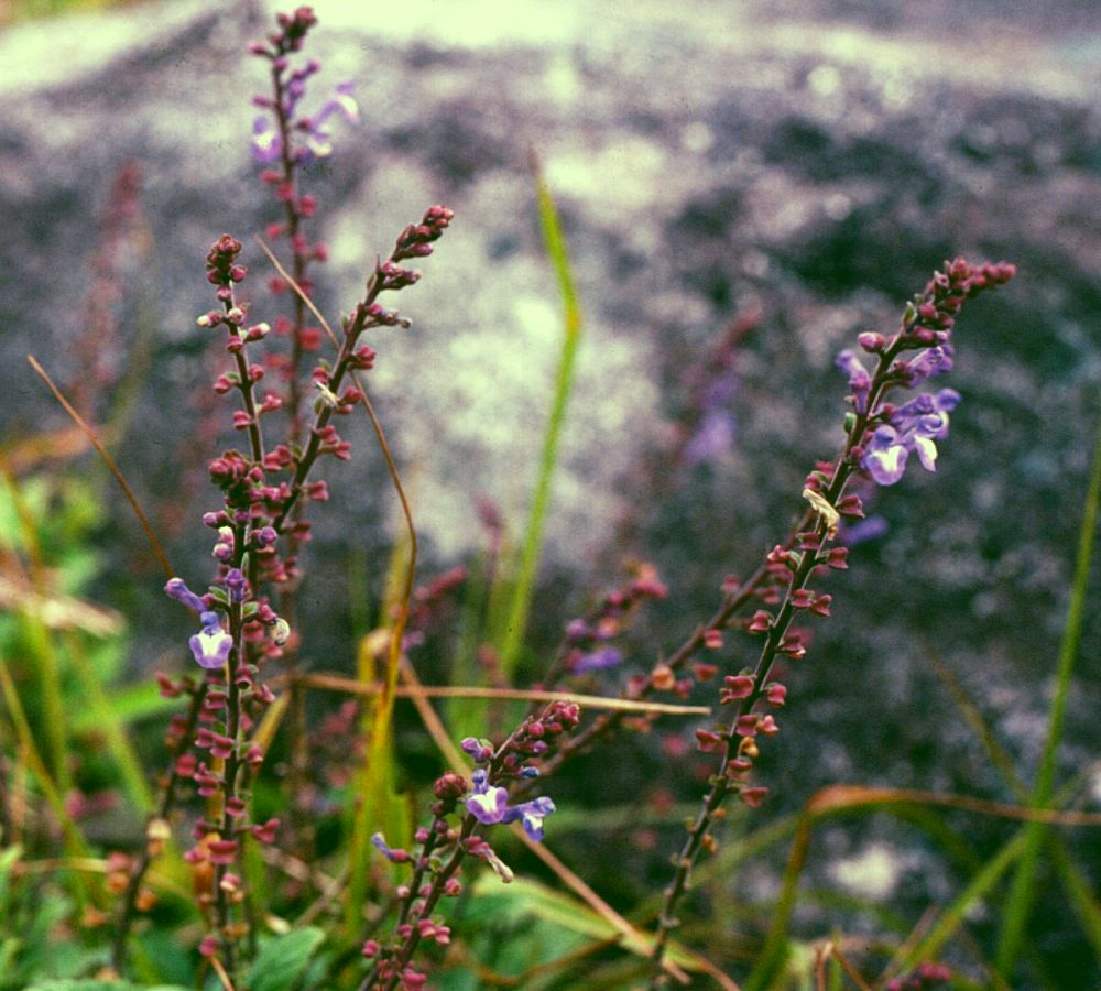 Scutellaria discolor, Lamiaceae - Kambodscha/Cambodia, Phnom Bokor Nationalpark, Bokor Hill Station, bei "Palace Hotel" (Prov. Kampot)